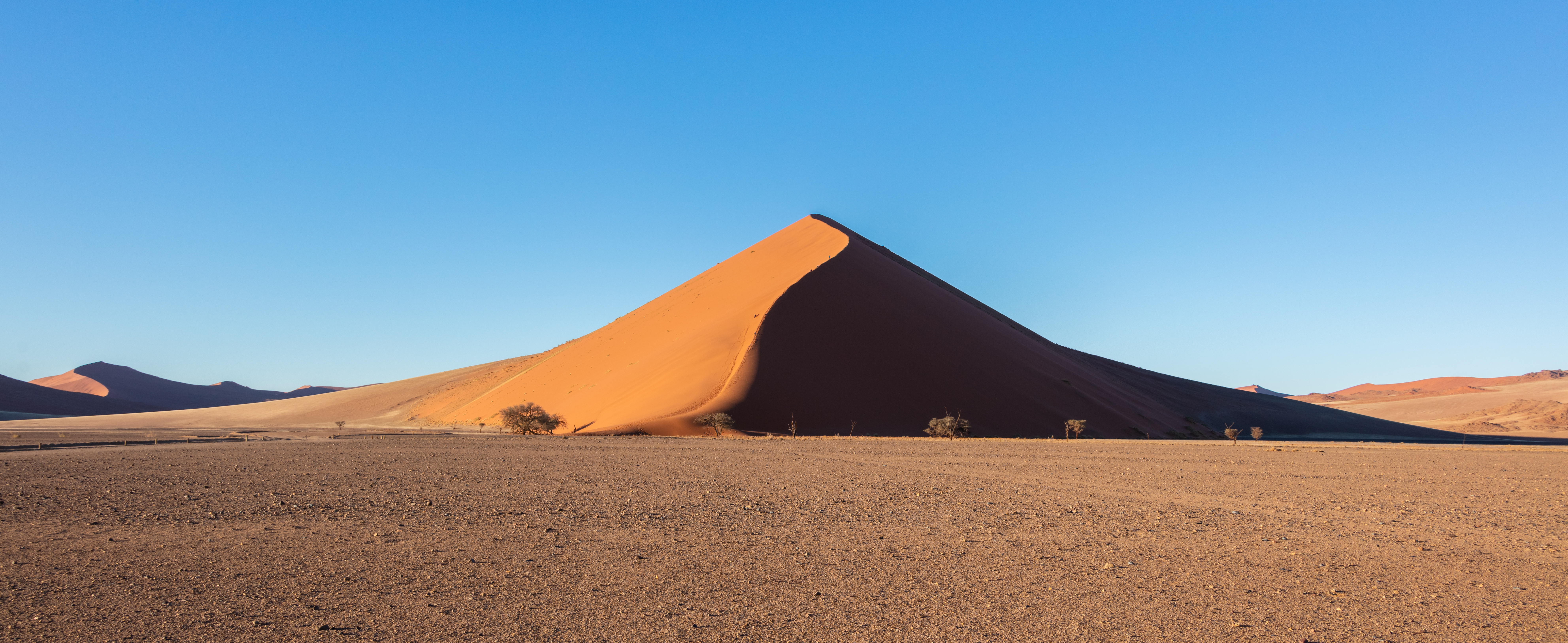 Dune in Sossusvlei, Namibia